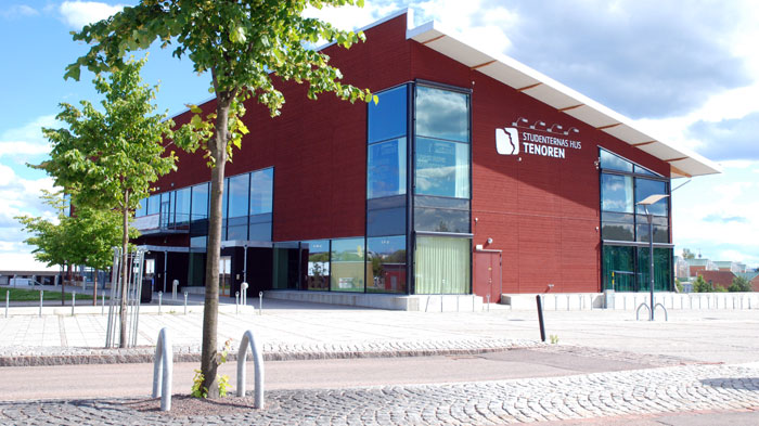 The student union house Tenoren in Borlänge